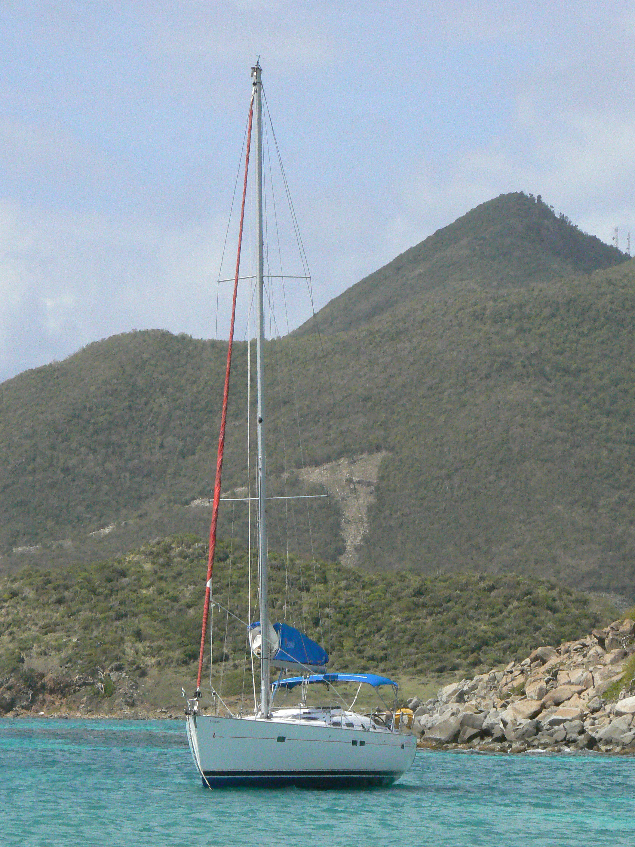 A Beneteau 473 (47.3') anchored at Ile Pinel in St. Martin.